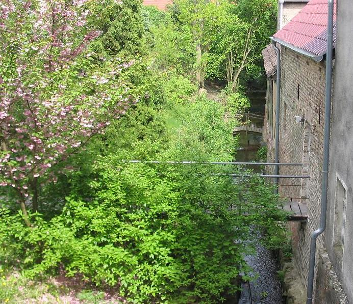 „Dippmannsdorfer Bach“. Dippmannsdorf is a village (part) of the town Belzig in Brandenburg, Germany.